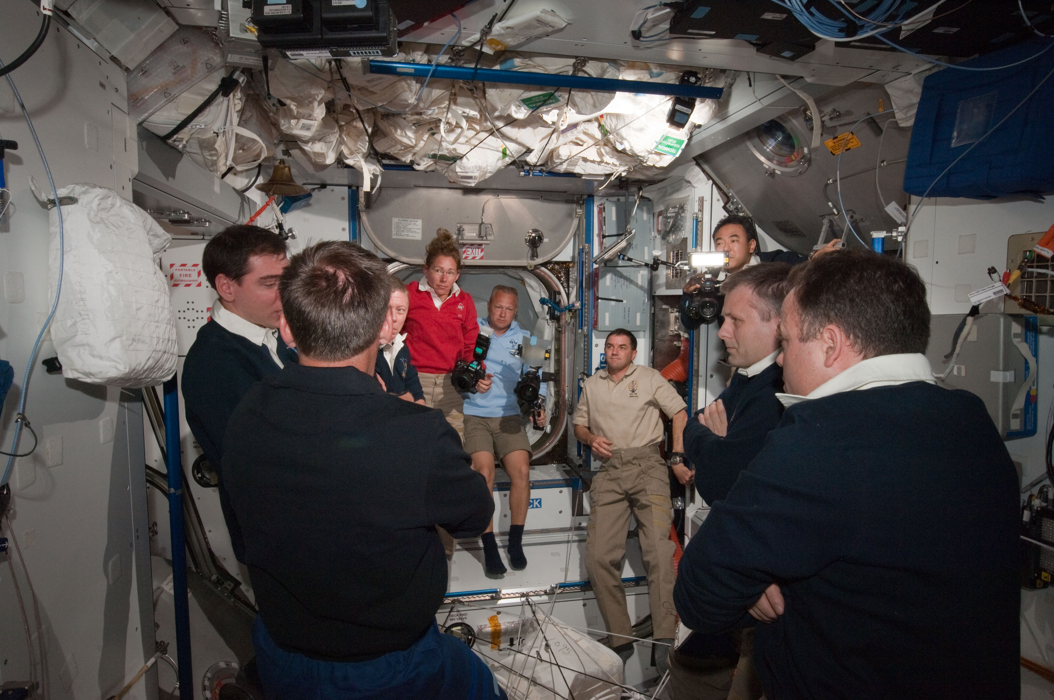 This view captures a reunion among six NASA astronauts, three Russian cosmonauts and a Japanese astronaut in the International Space Station's U.S. Node 2 or Harmony following a July 10 docking of the space shuttle Atlantis and the station. Clockwise from lower left corner are NASA astronaut Chris Ferguson, Russian cosmonaut Sergei Volkov, and NASA astronauts Mike Fossum, Sandy Magnus, Doug Hurley and Rex Walheim; Japan Aerospace Exploration Agency astronaut Satoshi Furukawa, Russian cosmonaut Andrey Borisenko and NASA astronaut Ron Garan. Not pictured is Russian cosmonaut Alexander Samokutyaev. Four of the ten space travelers are from STS-135 – the final crew of the Space Shuttle Program – and six are serving long terms on the station.